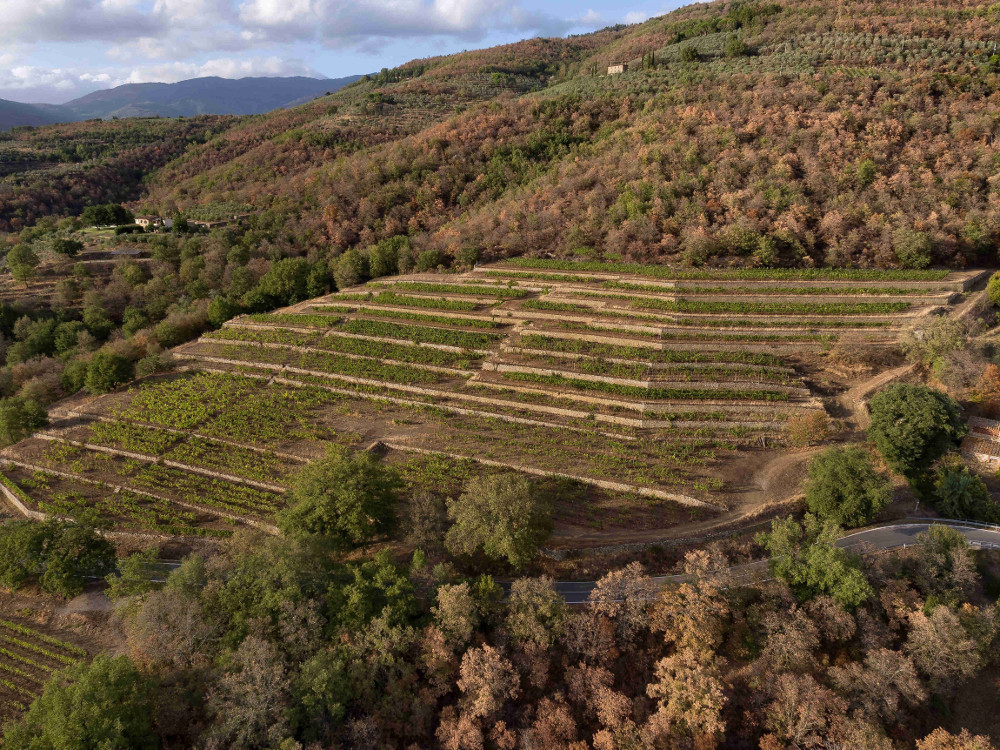 Historic Monumental Vineyard "Vigna delle Sanzioni", Loro Ciuffenna, Arezzo